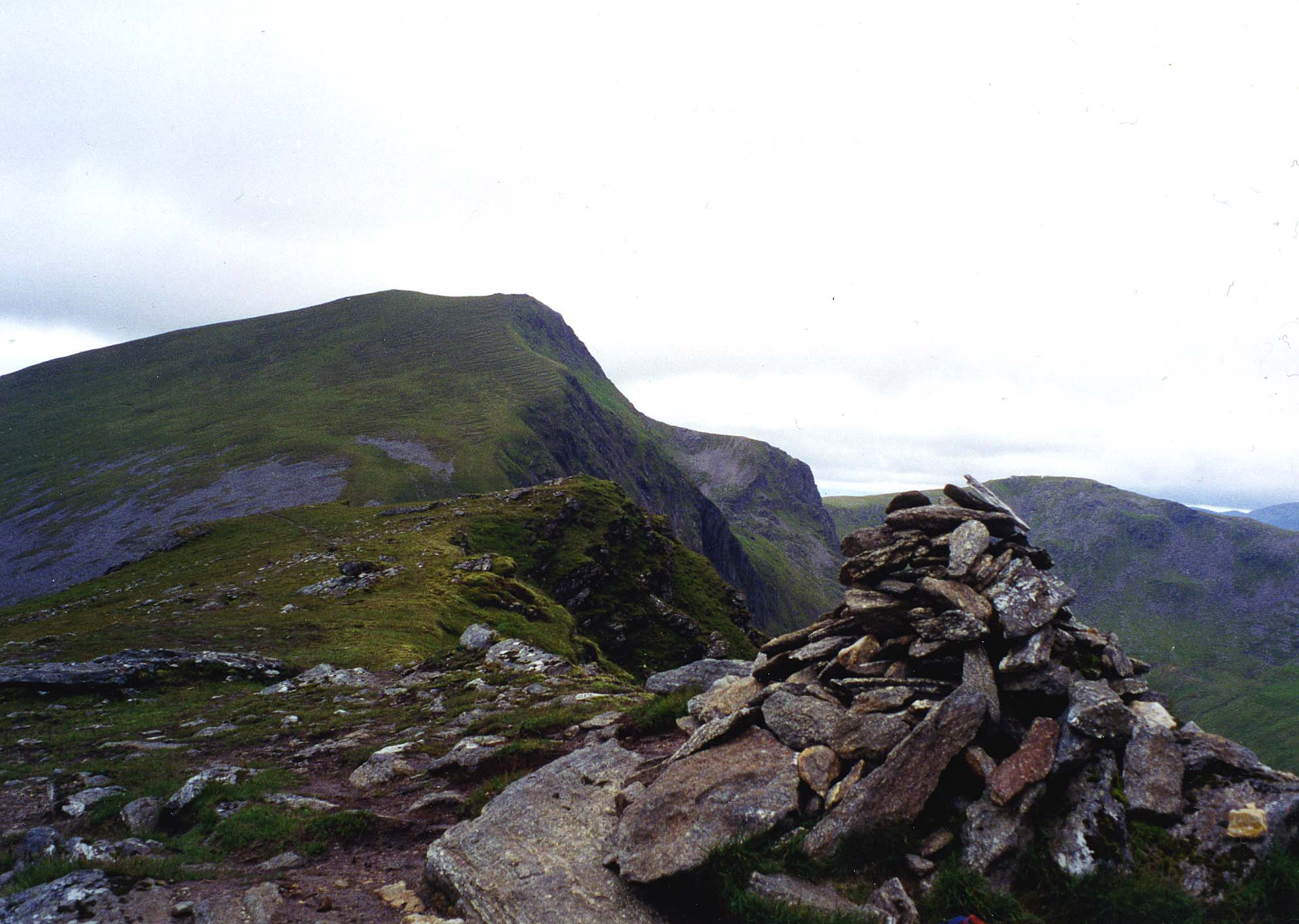 Personal picture taken by Mick Knapton